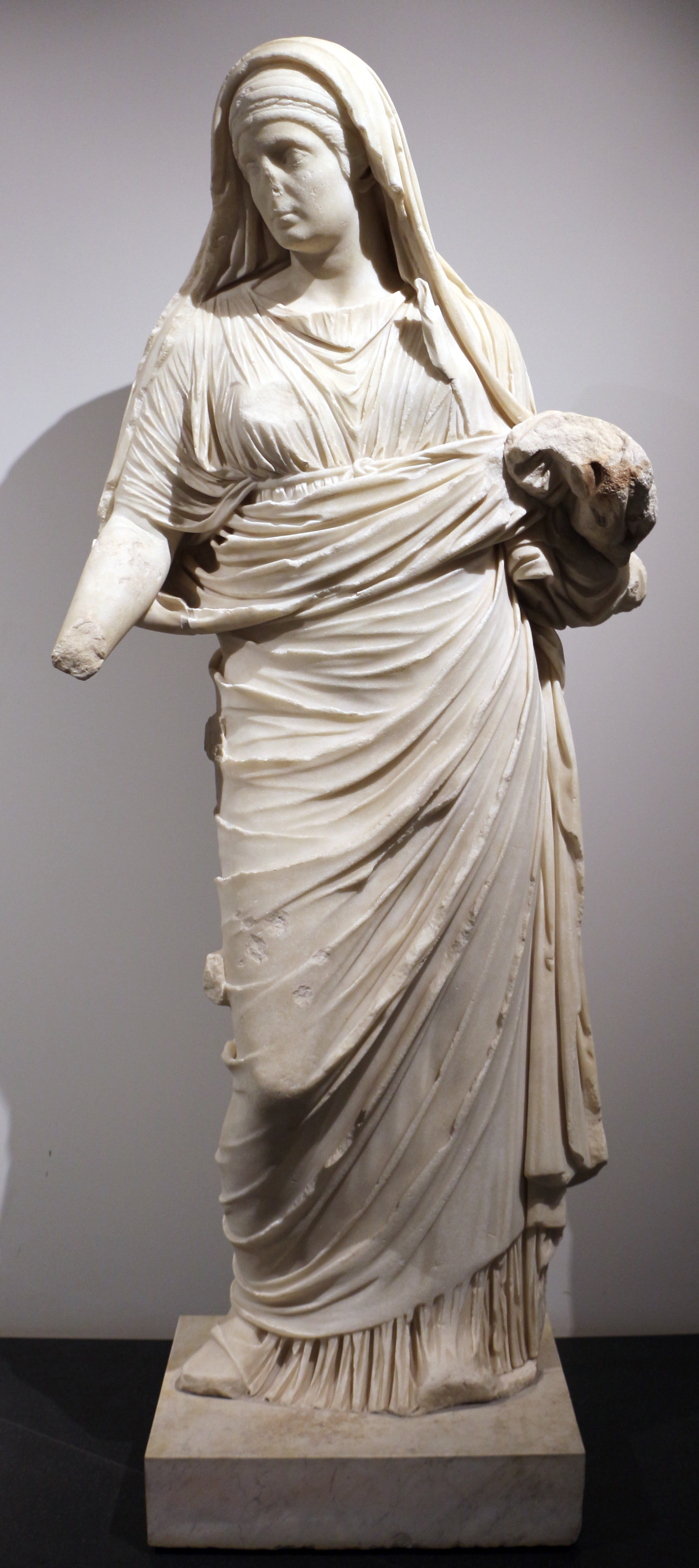 Ancient Roman statues in the Antiquarium del Palatino (Rome)